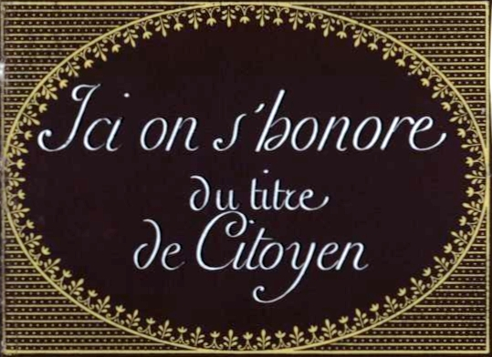 "Here we address one another as citizen." Public notice commonly displayed in France during the revolutionary period. This specimen is dated 1799.